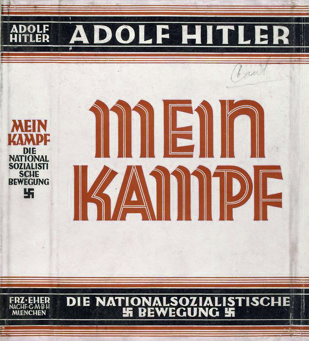 Dust jacket of the book Mein Kampf, written by Adolf Hitler. Courtesy of the New York Public Library Digital Collection.